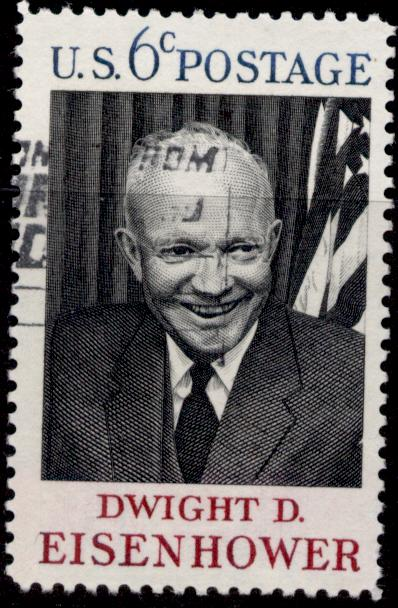 Stamp owned by Swollib